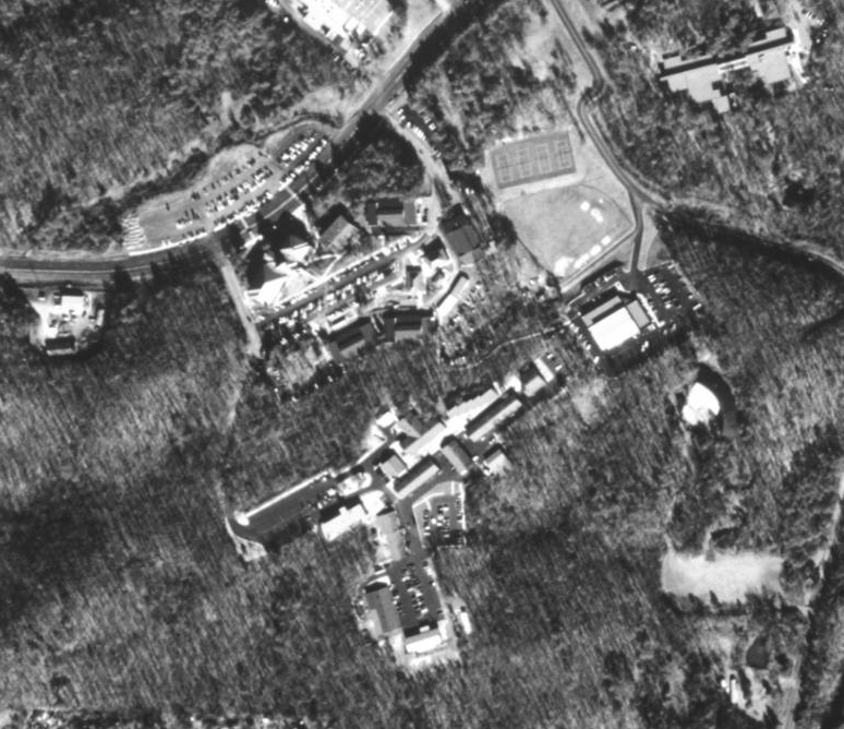 Aerial image of National Park Community College